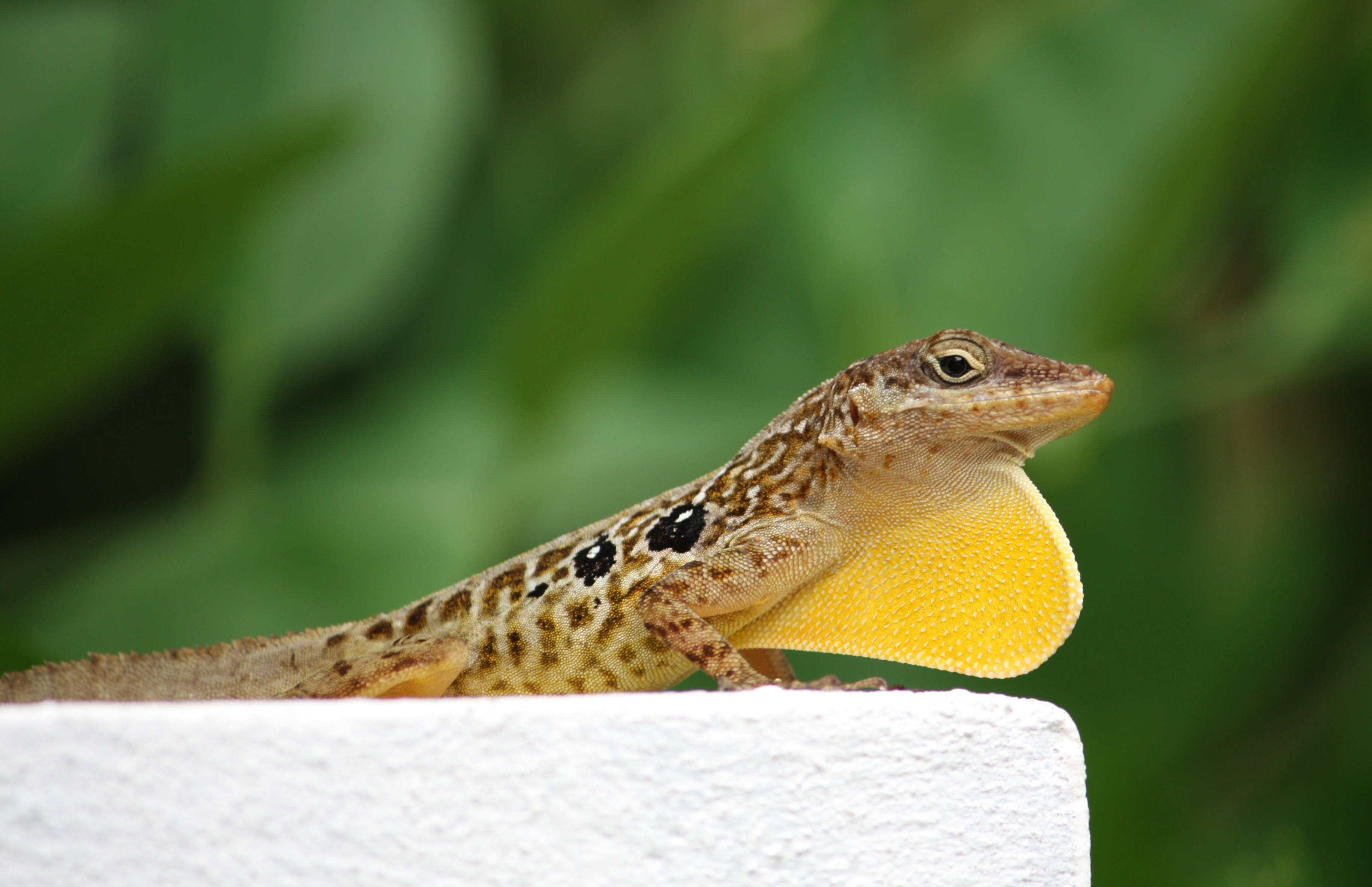 Male Dominican Anole (Anolis oculatus) extending its throat fan (dewlap). North Caribbean ecotype (A. o. cabritensis). Coulibistrie, Dominica.